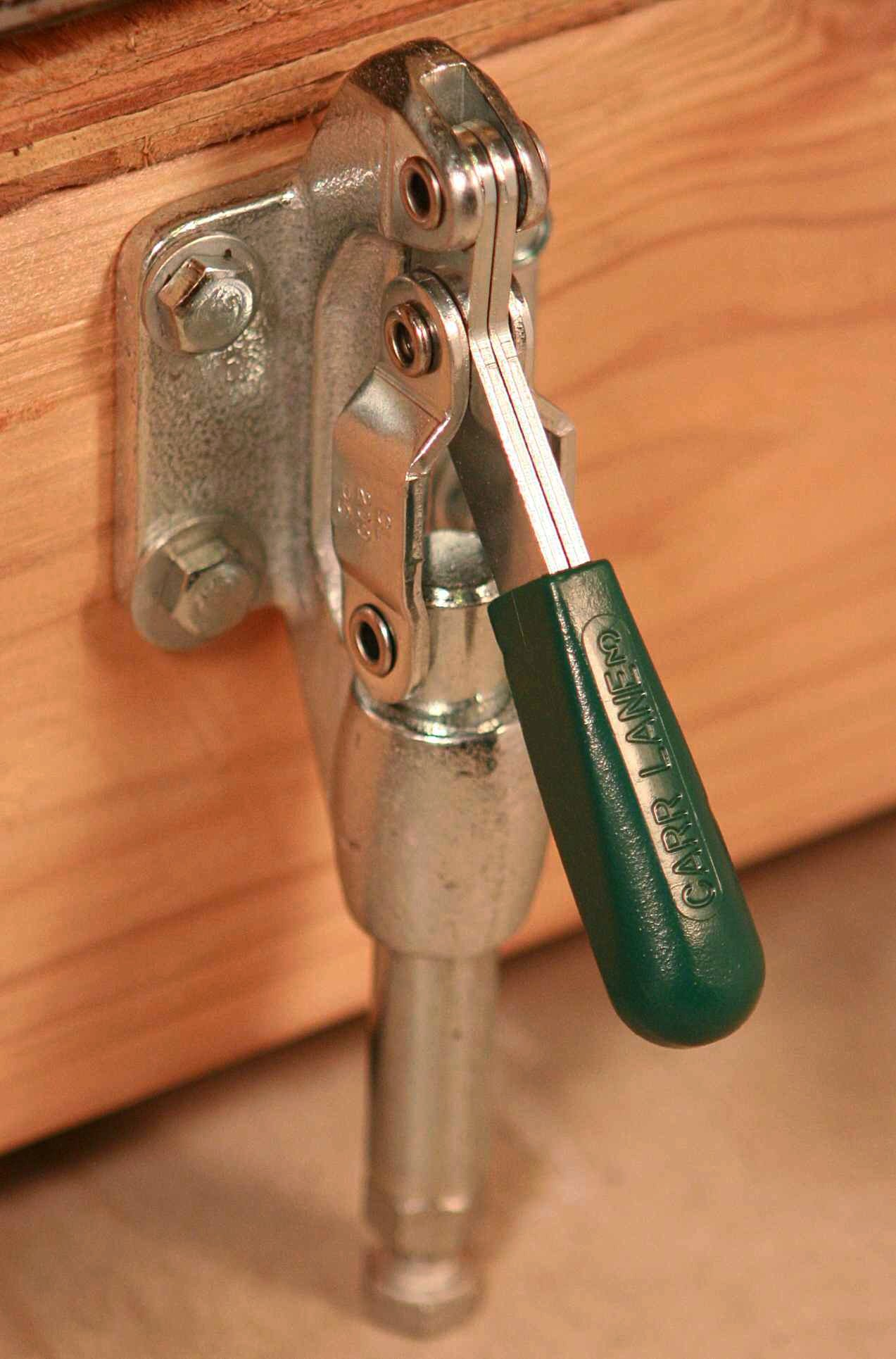 A push-pull toggle clamp being used as a brake on an unfinished scenery wagon. Though clamps of this type are designed primarily for industrial machining applications, they are commonly used in theaters as wagon brakes because they are typically more durable than standard theatrical wagon brakes.